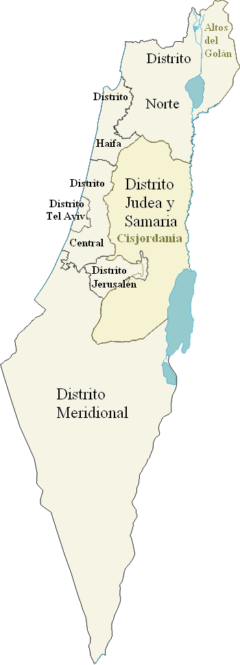 Map of the districts of Israel, Spanish version